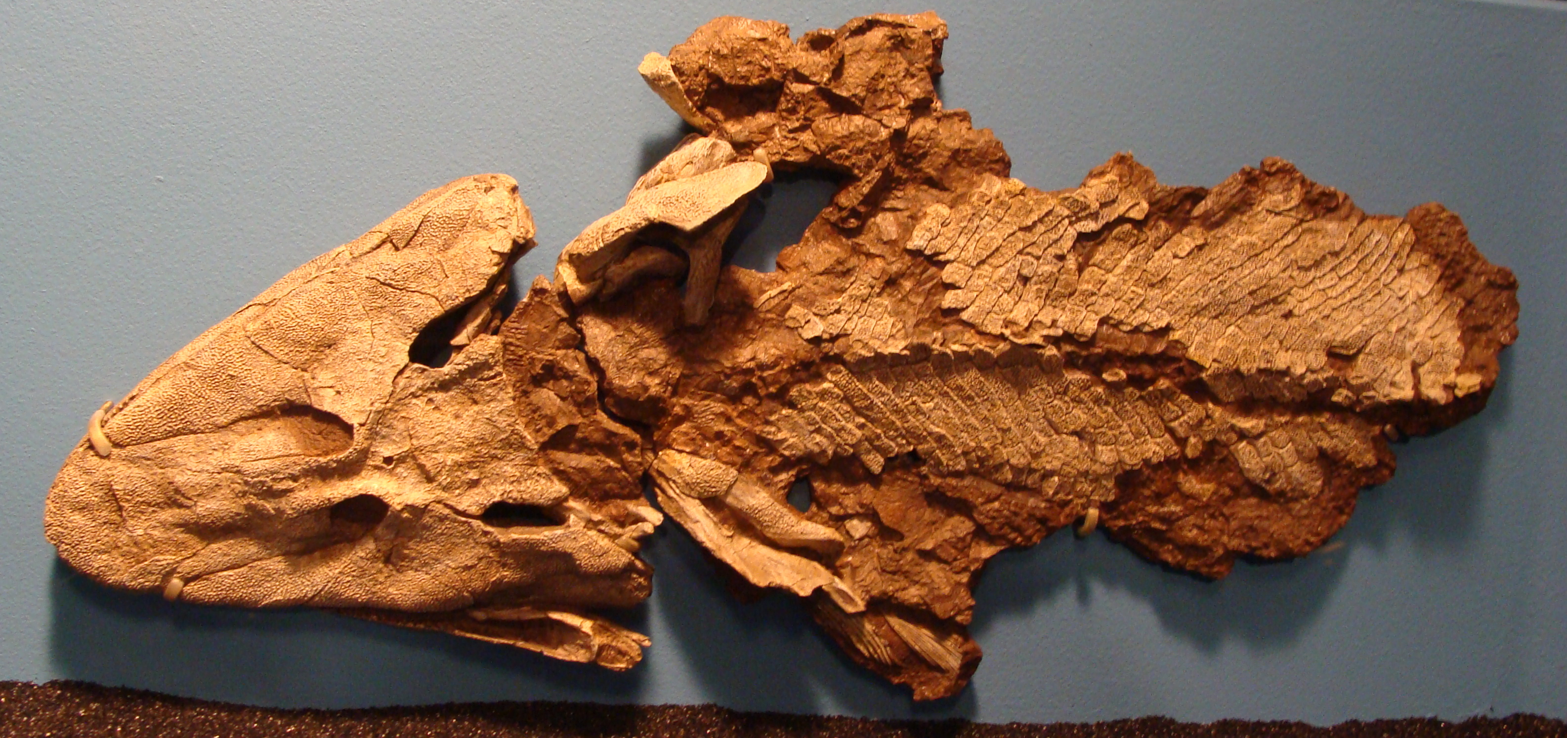 Tiktaalik in the Field Museum, Chicago.